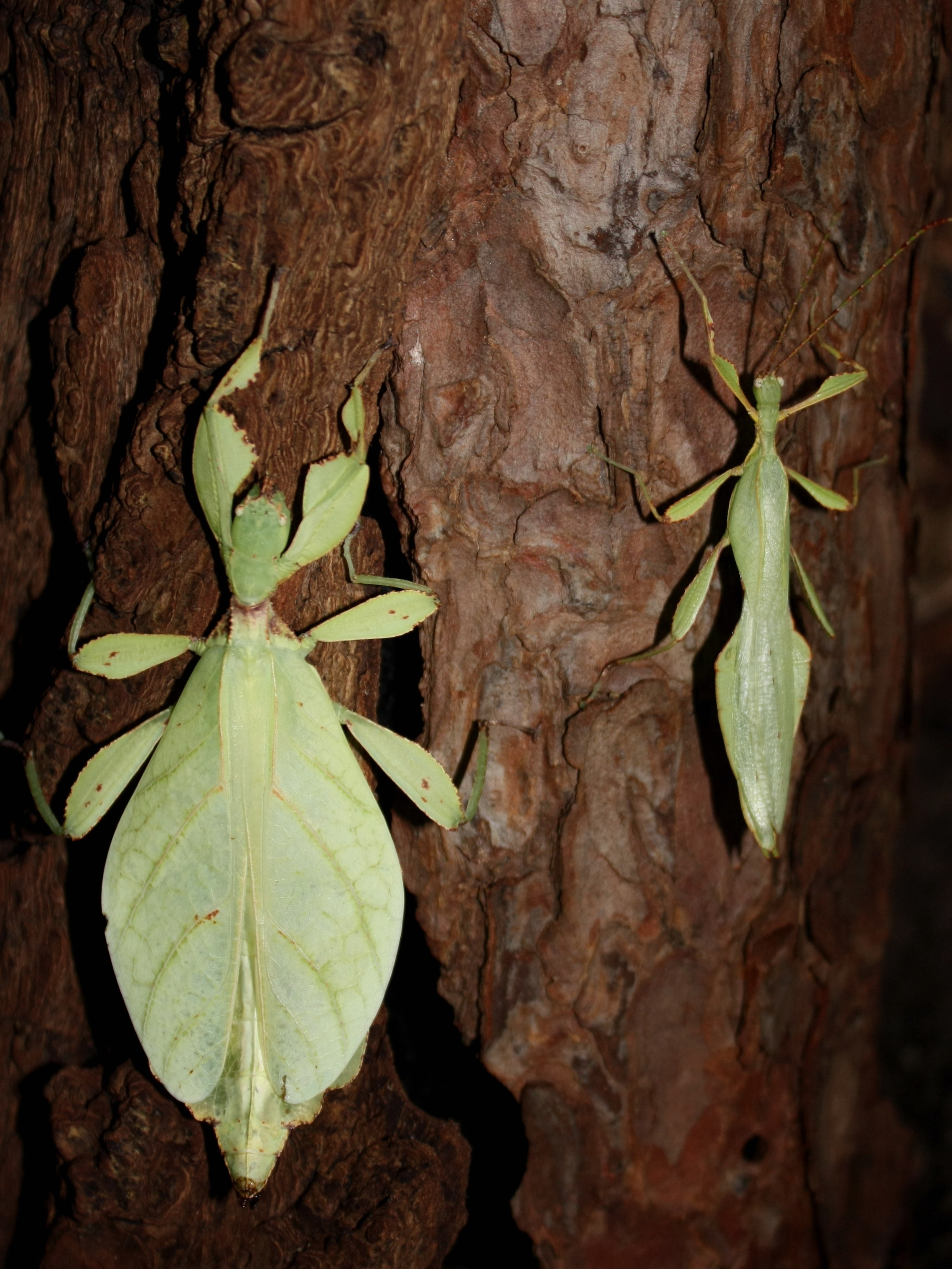 Pair of Phyllium jacobsoni